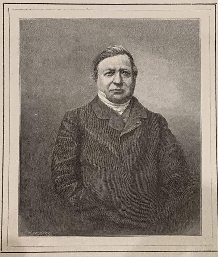 Joseph Liouville (1809-1882), French mathematician